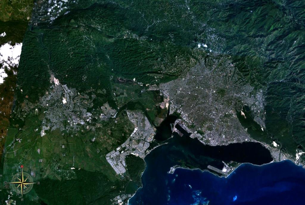 Jamaica Kingston and surrounding countryside